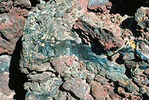 Tachylite: A black, green or brown volcanic glass that forms when basaltic magma is rapidly chilled.